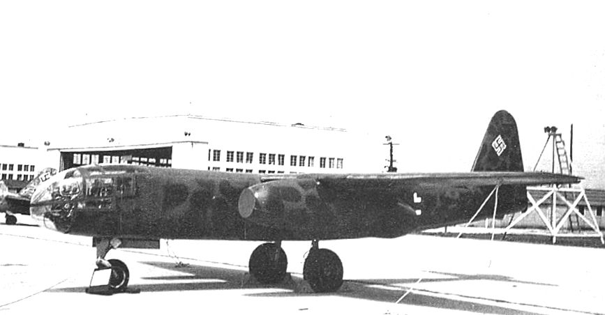 Arado AR 234 captured from Germany at Freeman Field, Indiana, 1945